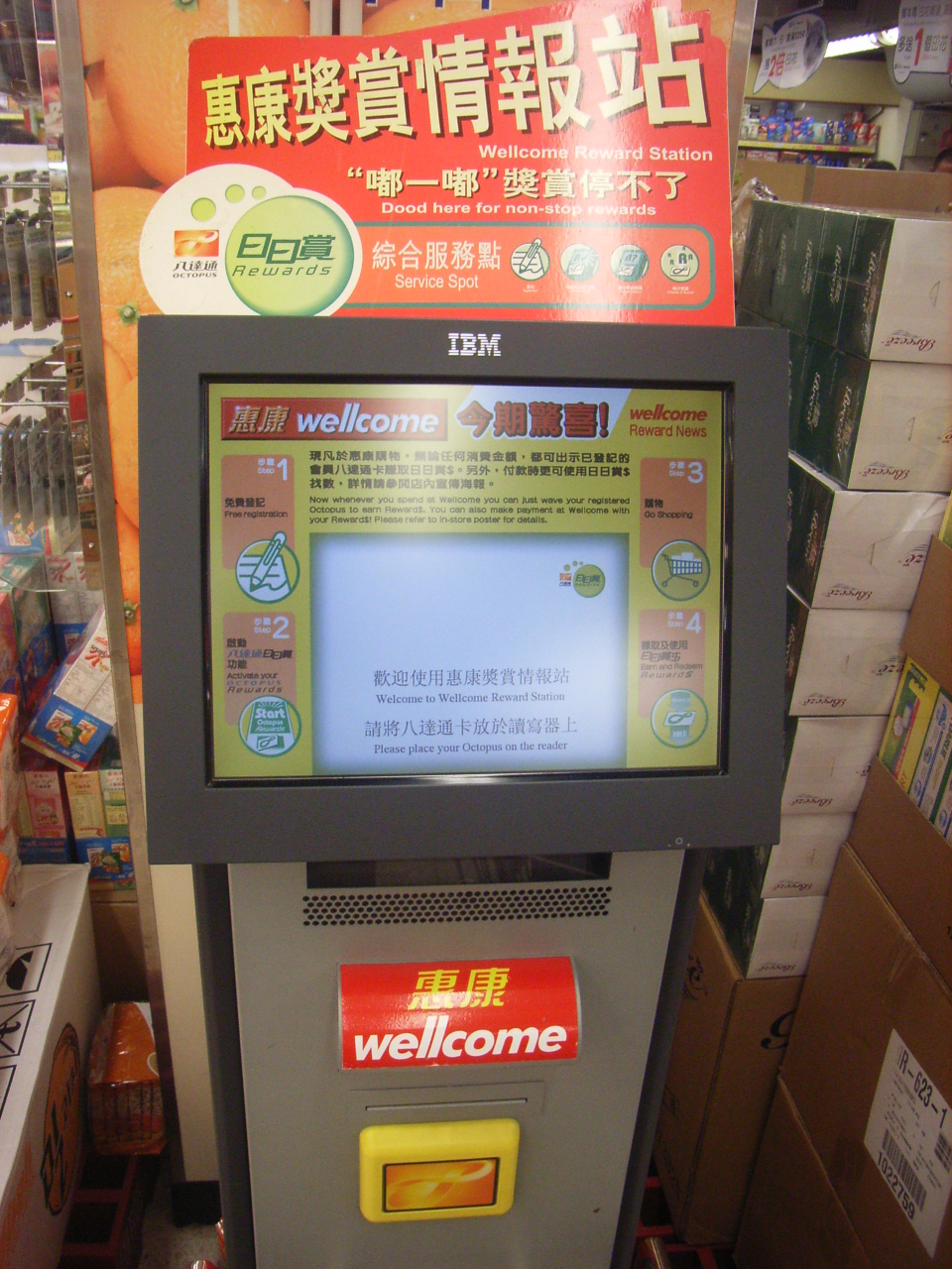 八達通日日賞 Author= StrepsilsPINK